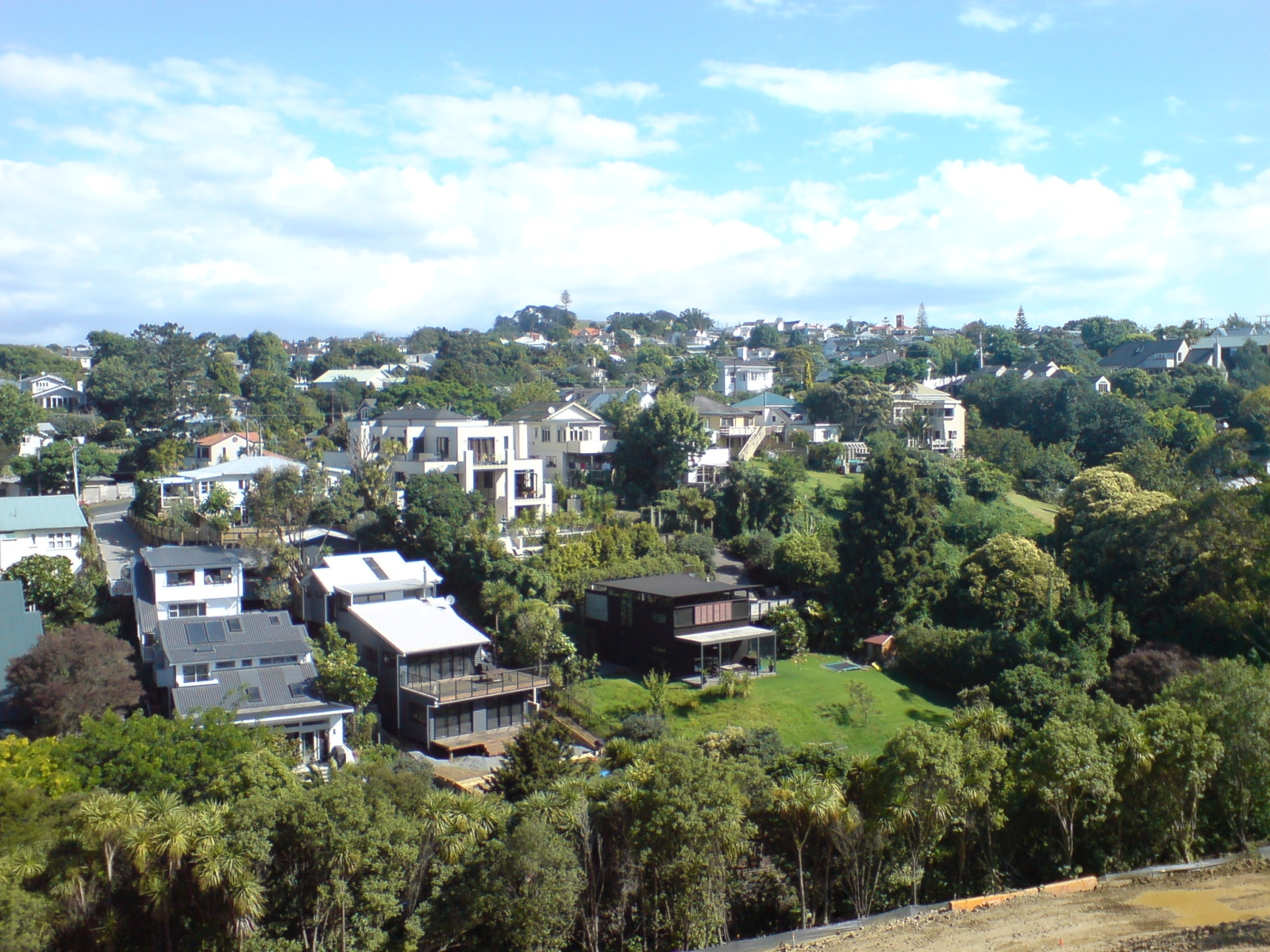 Looking over Remuera in Auckland, New Zealand, from the eastern end of Newmarket Park. Coordinates may be slightly off by 10-20m.